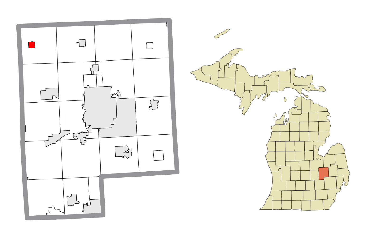 Montrose, MI